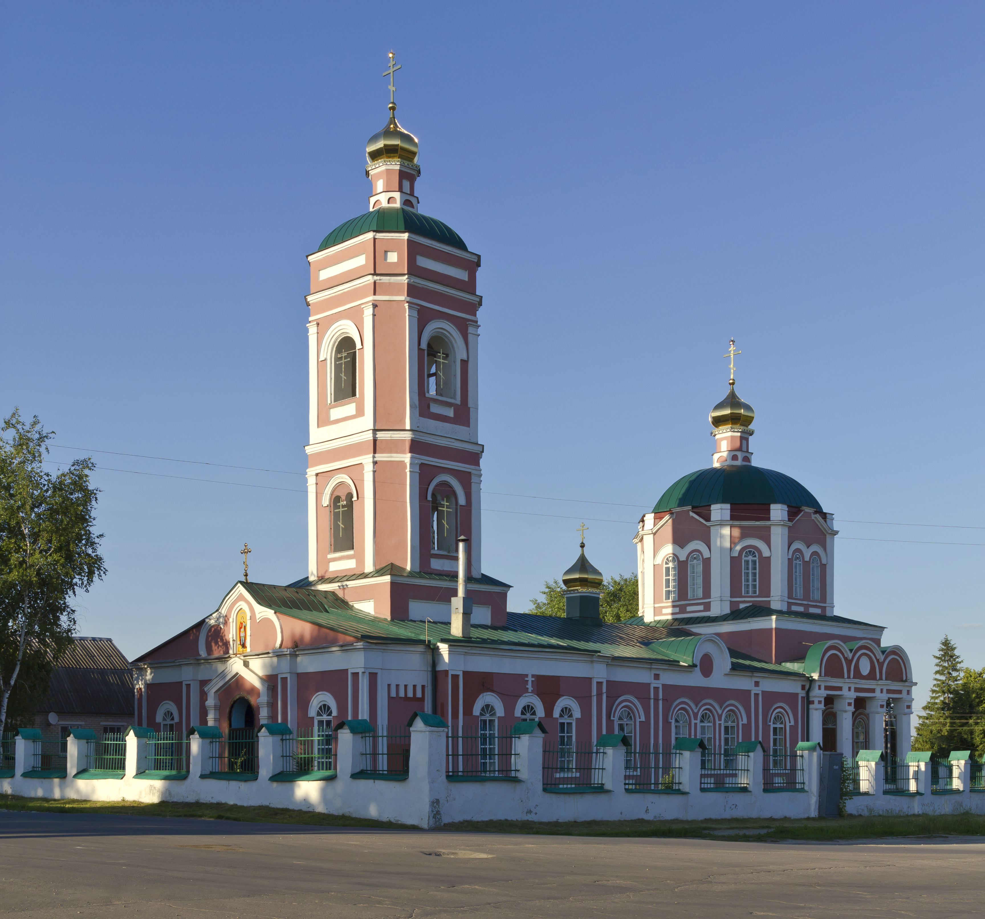 St. George Church in Dankov, Dankovsky District, Lipetsk Oblast, Russia